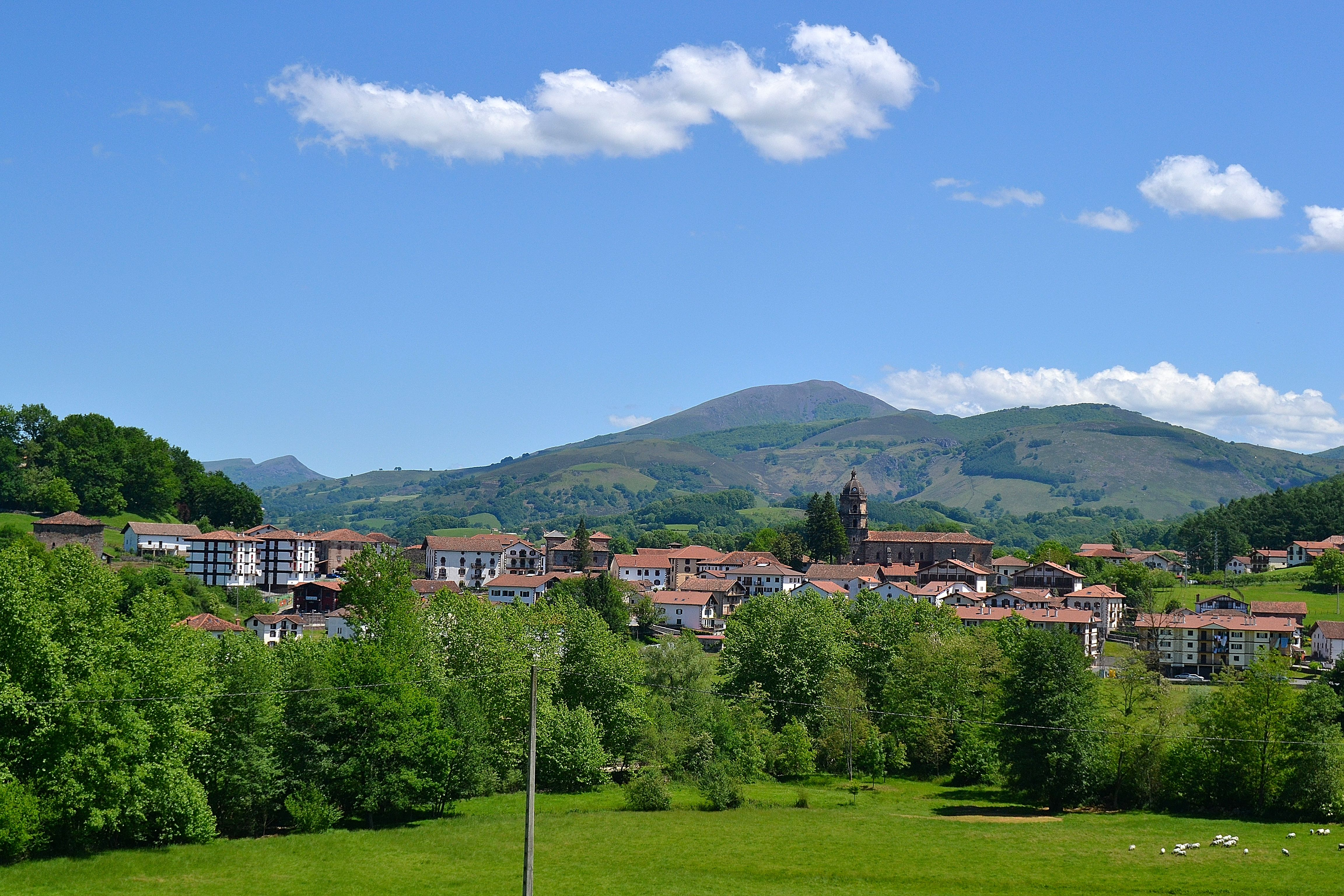 Irurita. Baztan, Navarre. Basque Country.